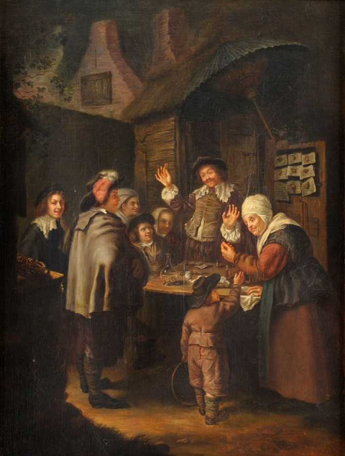 This image is available from the Netherlands Institute for Art Historyunder digital ID 255758. This tag does not indicate the copyright status of the attached work. A normal copyright tag is still required. See Commons:Licensing.